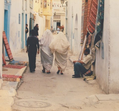 Three walking women in Tunisia